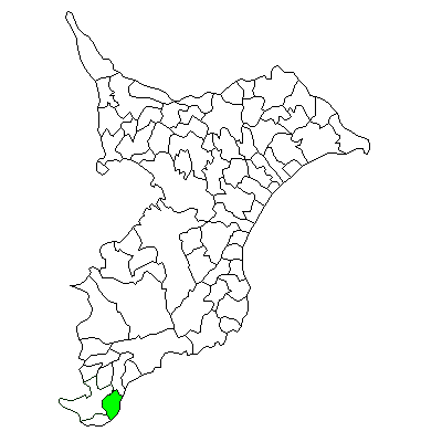 Location Map of former Chikura Town, Chiba Prefecture, Japan, now part of Minamiboso City.